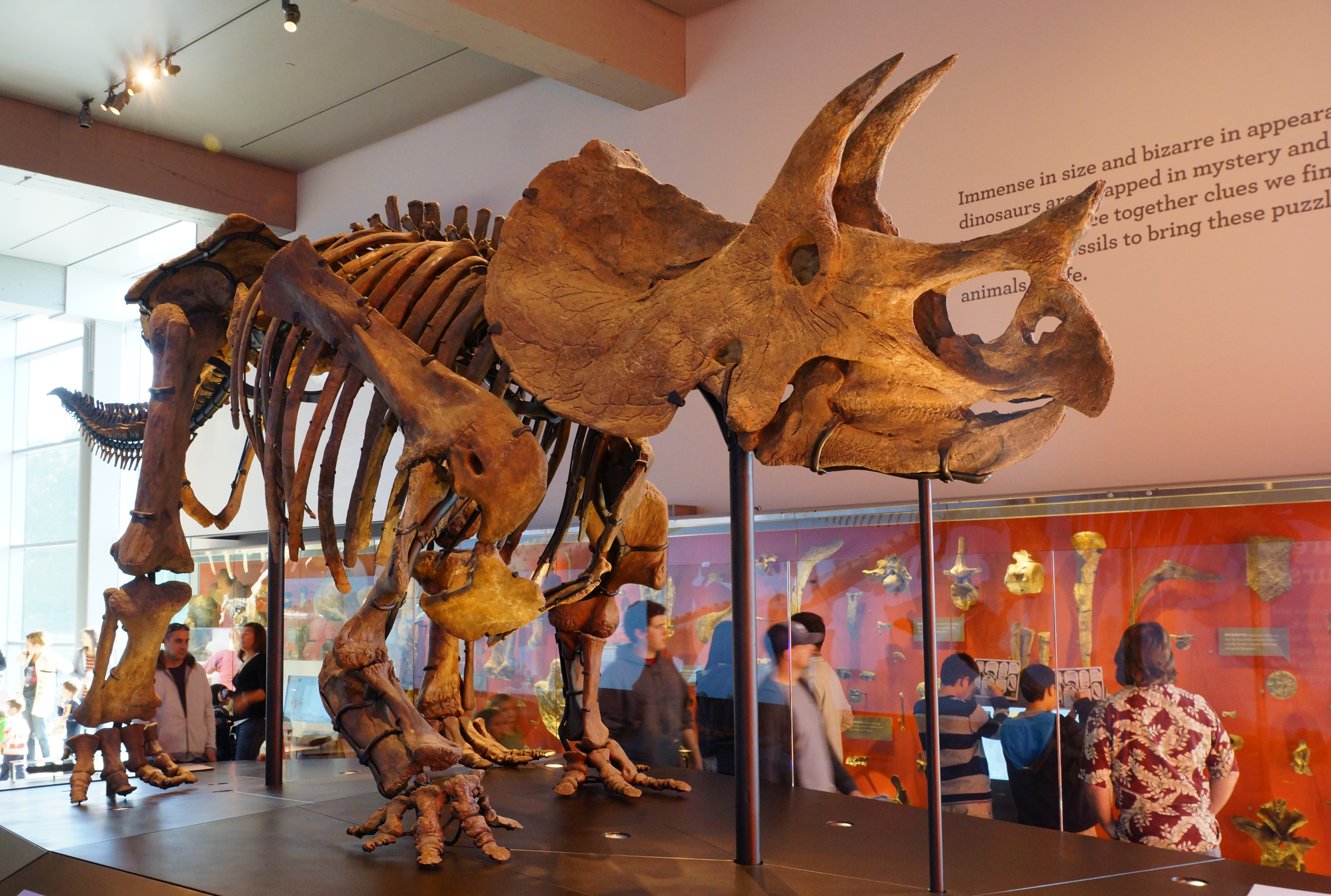 2011-12-23 01-01 Kalifornien 372 Los Angeles, Natural History Museum